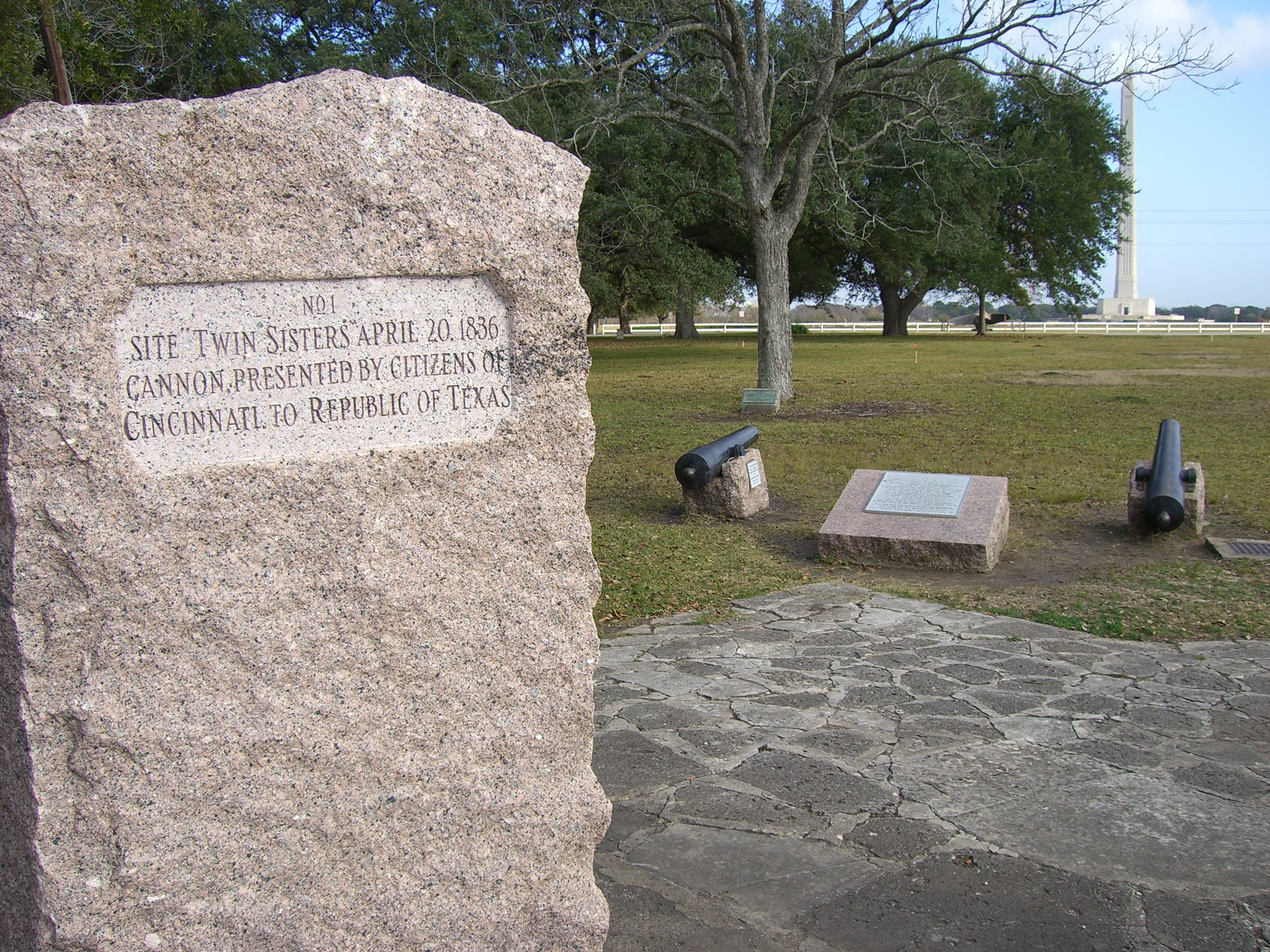 Photo by Nick Juhasz.